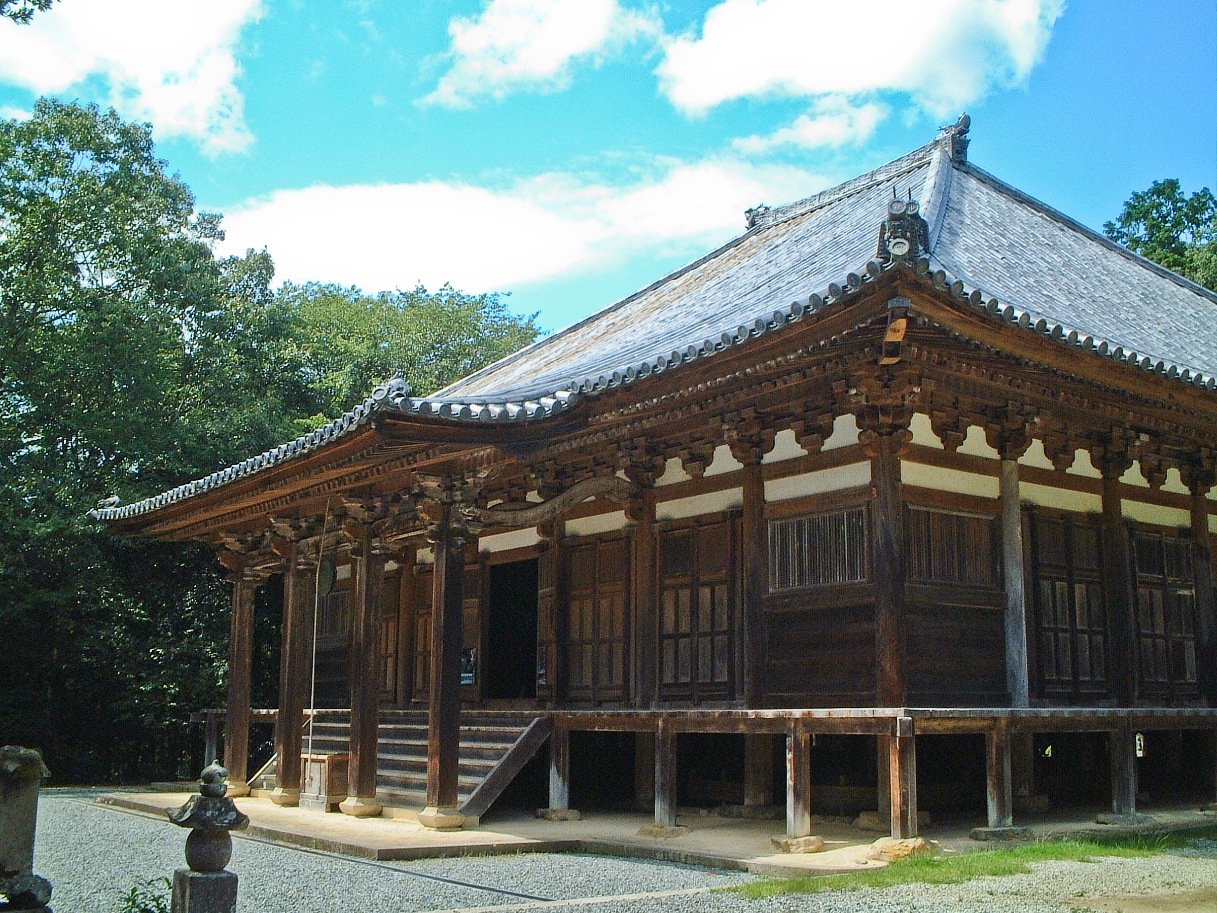 The Main Hall of Choko-ji, Yashiro, Hyogo, Japan.